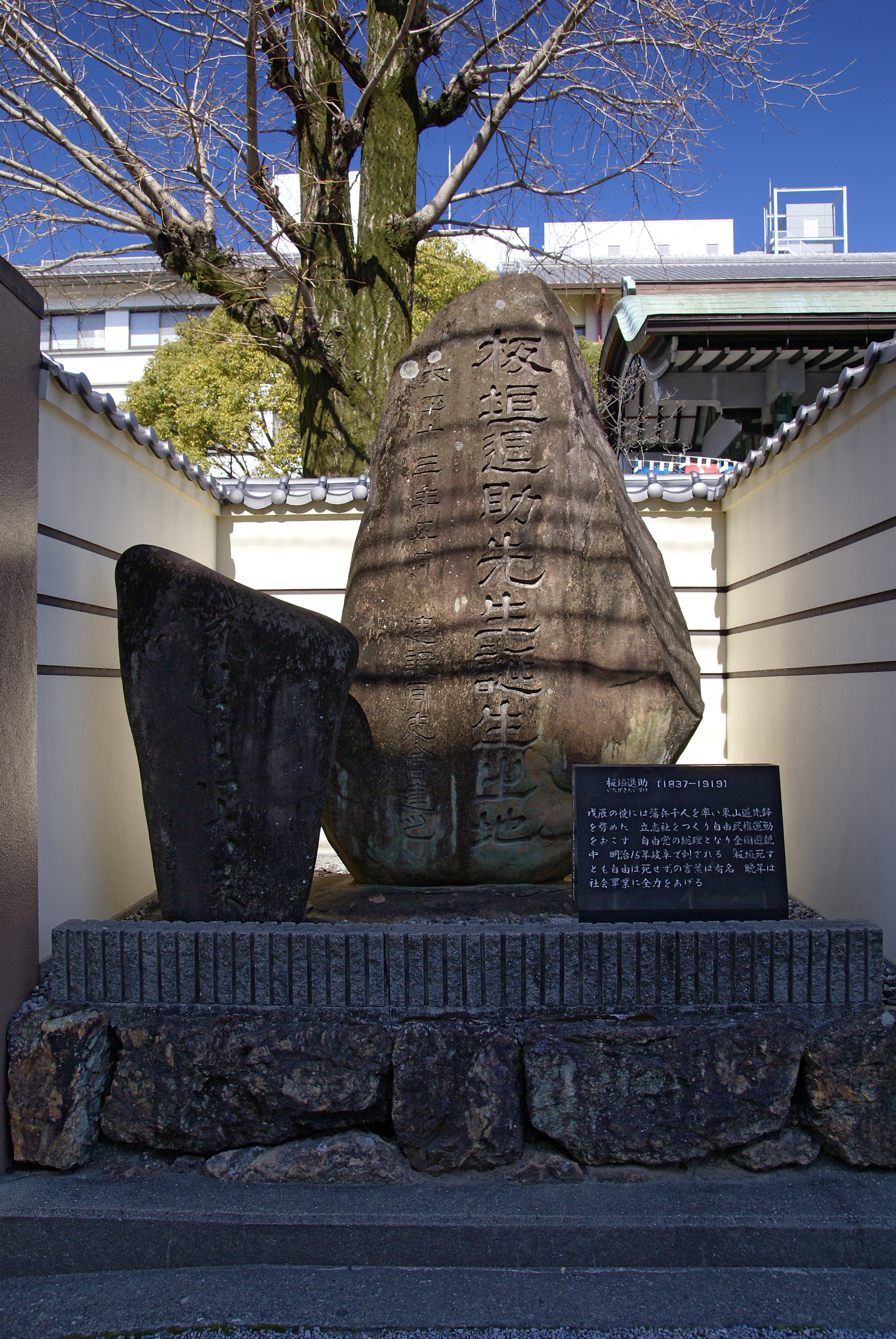 Taisuke Itagaki's Birthplace in Kochi, Kochi prefecture, Japan